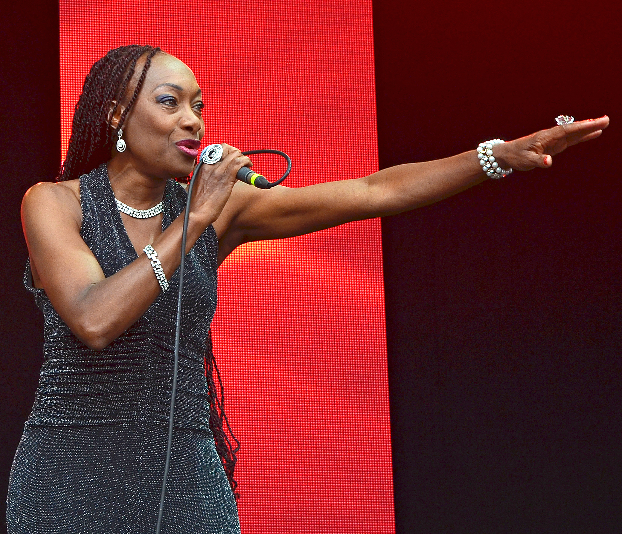 Maizie Williams performing at Lets Rock Bristol in 2014